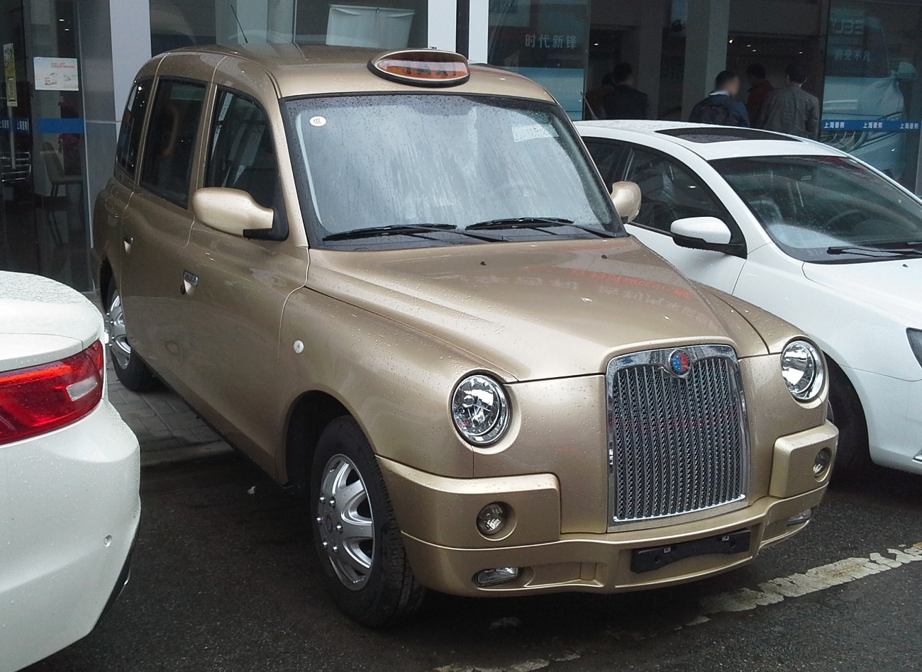 Shanghai Englon TX4 photographed in Shanghai, China.